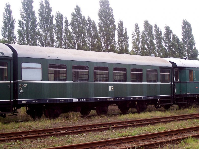 Three-axle passenger car of Deutsche Reichsbahn, national railway company of GDR, relaunch of a compartment car